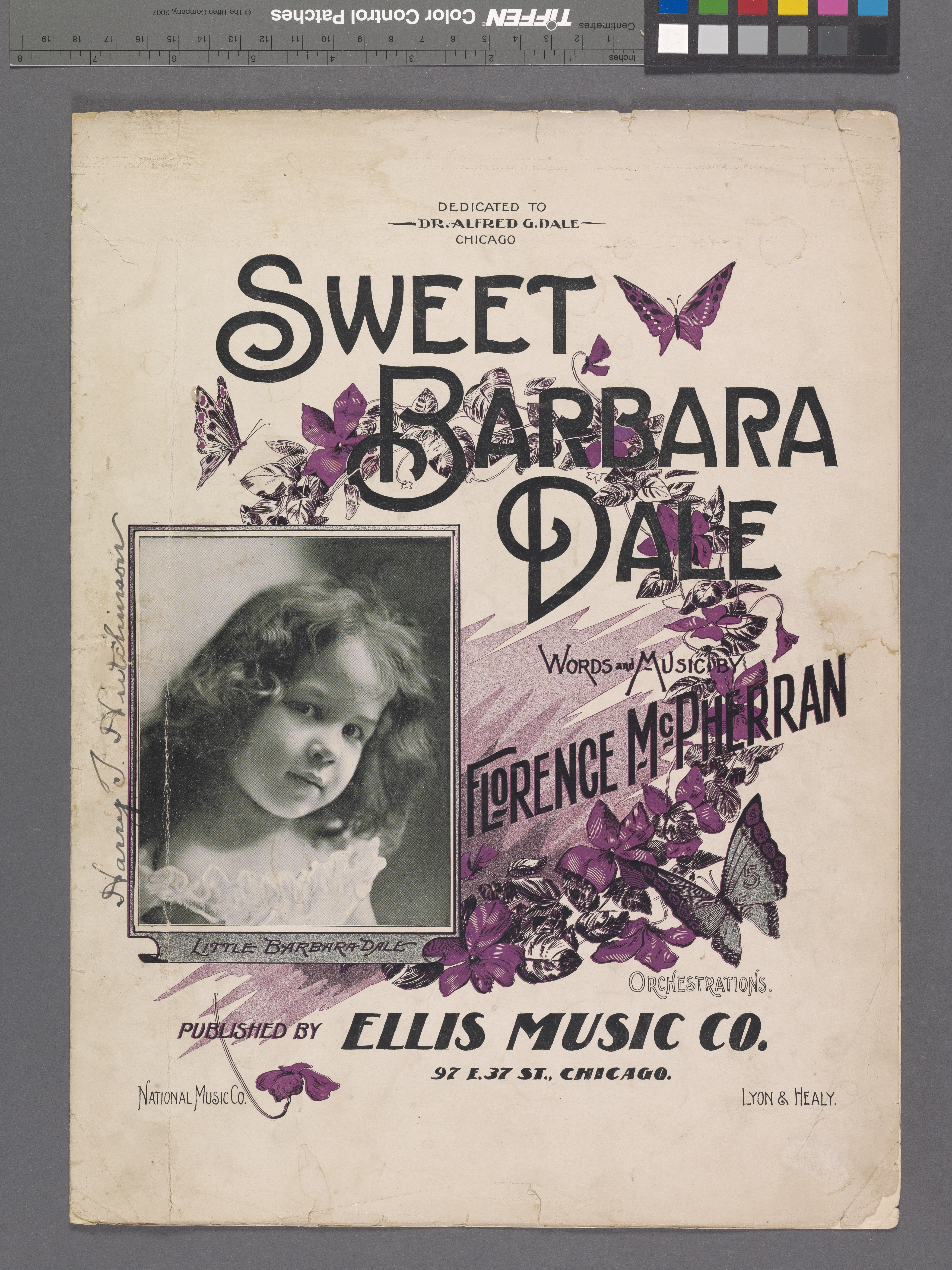 Dedication on cover: Dedicated to Dr. Alfred G. Dale, Chicago. On cover: Barbara Dale. Handwriting on cover: Harry J. Hitchinson. Statement of responsibility : words and music by Florence McPherran.